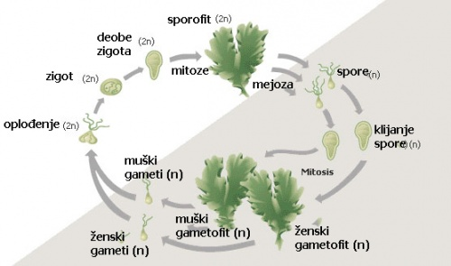 Smena gametofit i sporofit generacije